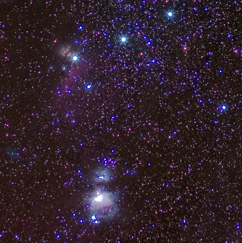 Detail of the Orion Nebula, from Image:Orion 3008 huge.jpg